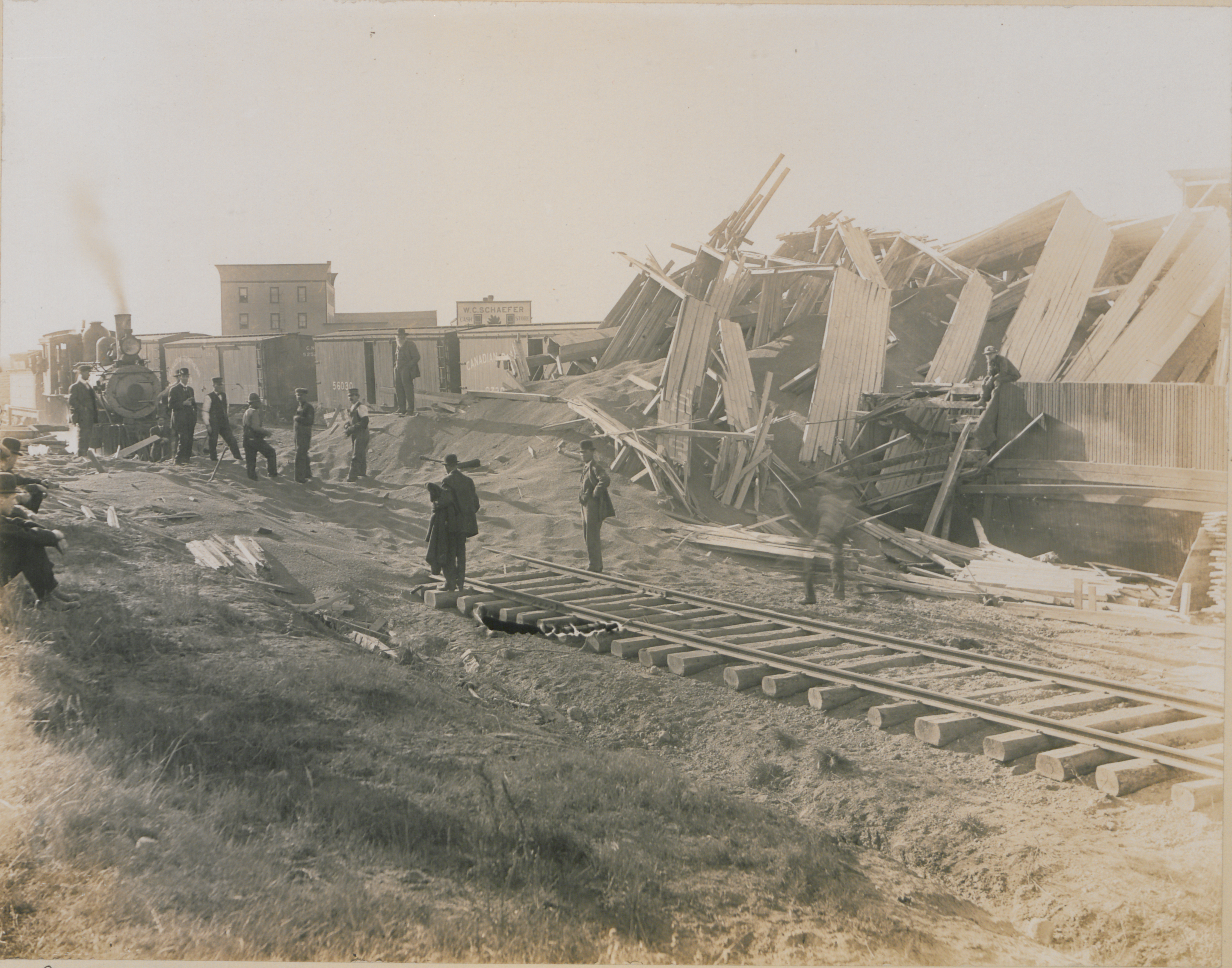 Original caption: “Laura Elevator wreck. No. 1.”